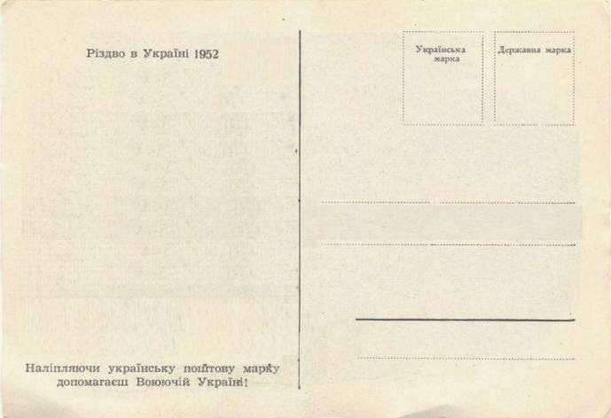 Back of a postcard of Underground post of Ukraine